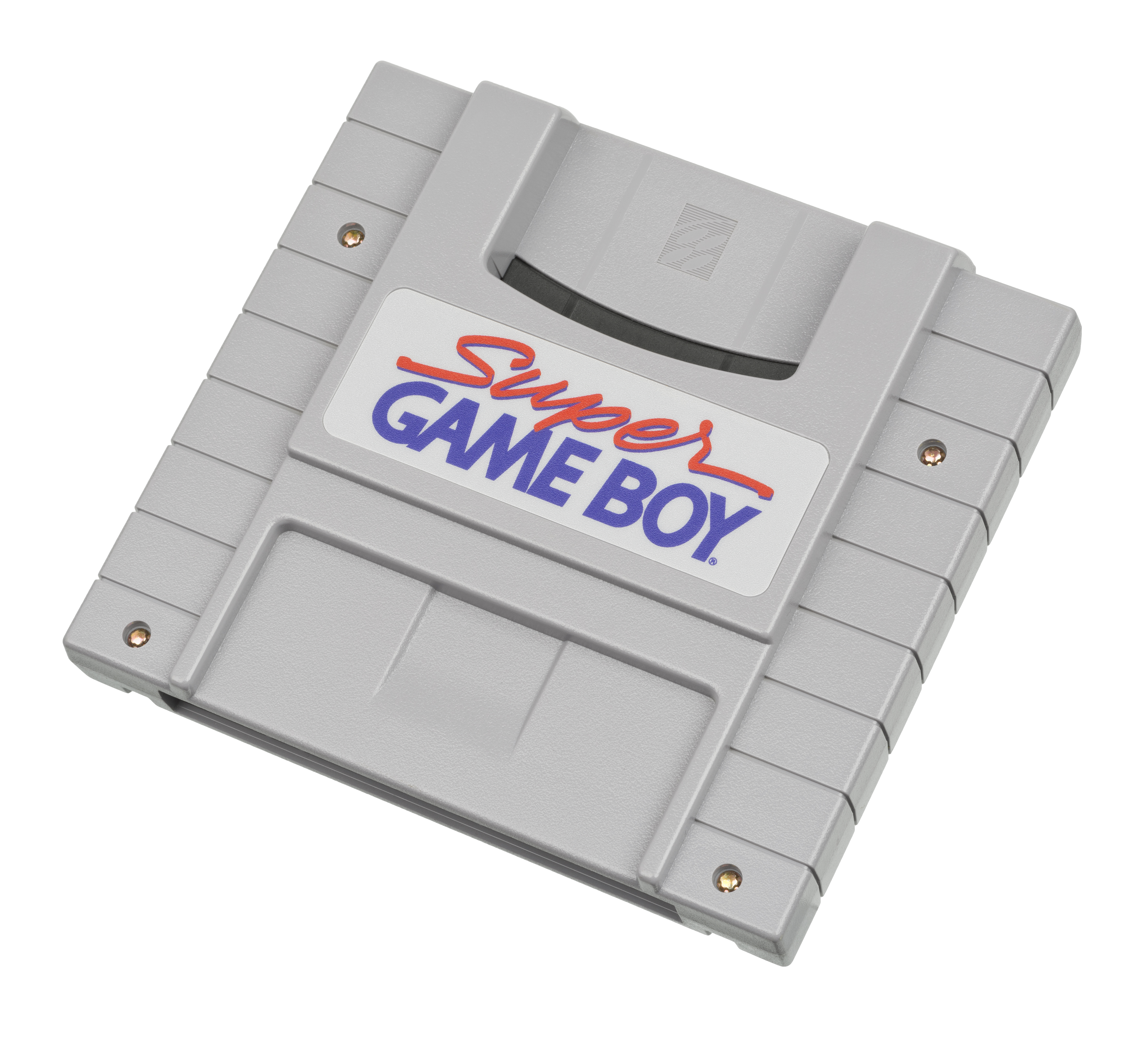 The Super Game Boy for the Super Nintendo video game console. Developed and released by Nintendo as a way to play Game Boy games on your television, the Super Game Boy contains a "Game Boy on a board", only using the Super Nintendo to handle video out and controller input.